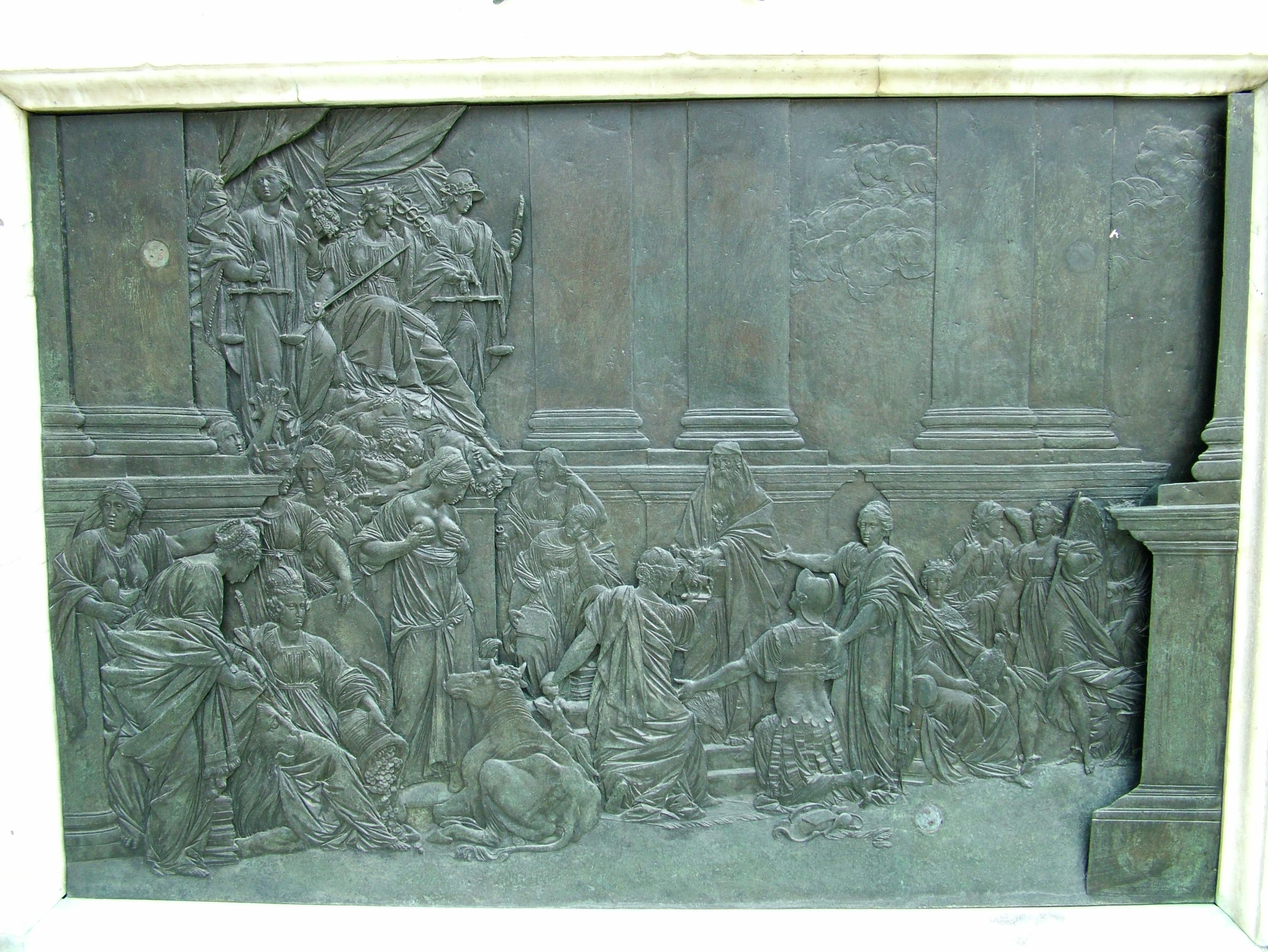 Allegory of Good Government, bas-relief in bronze of Francesco Mochi, at the base of the equestrian monument to Ranuccio I Farnese, Piazza Cavalli, Piacenza, Italy.